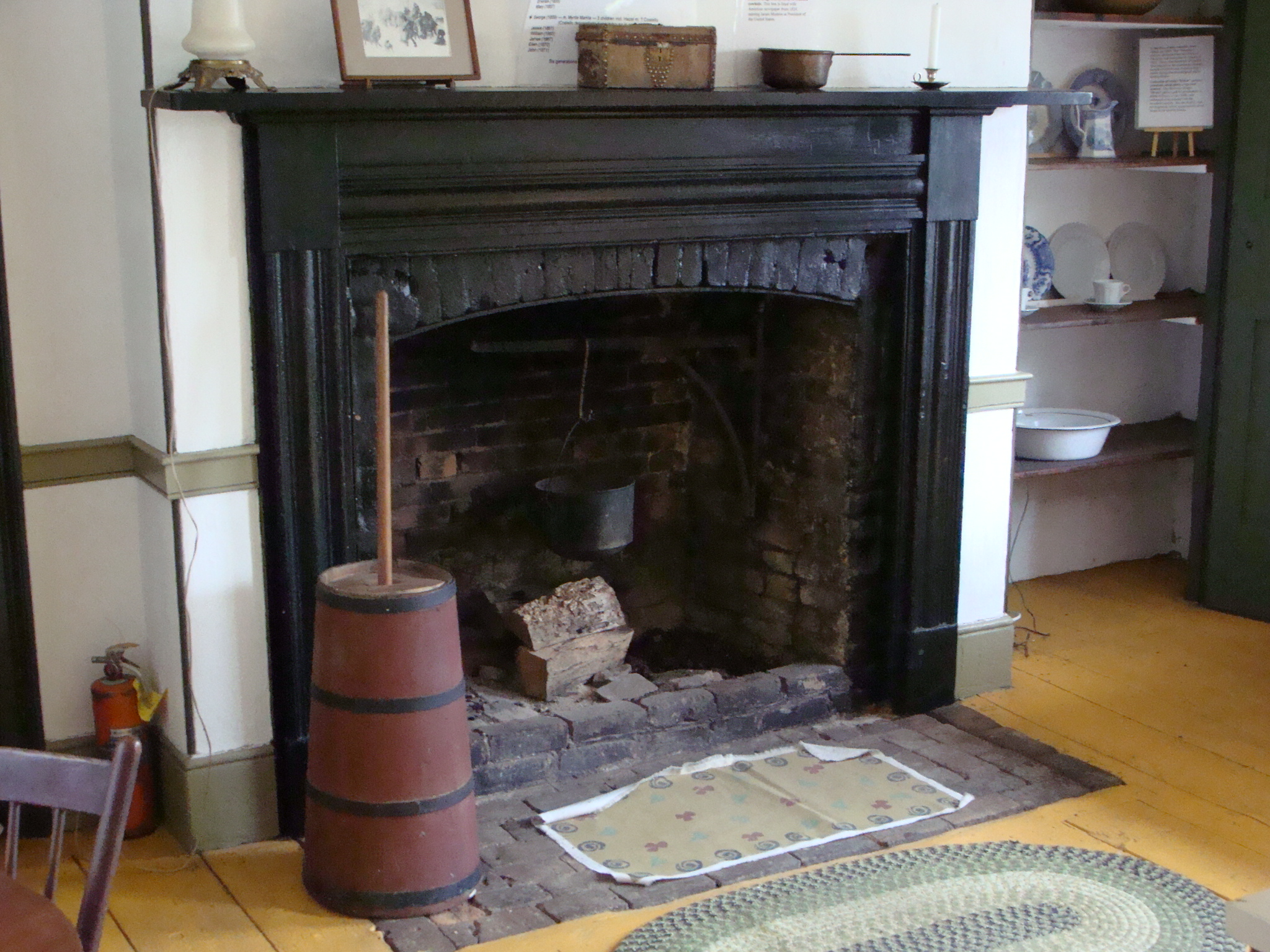 In 1834 this simple clapboard house on a hilltop just west of the Hermitage ruins became the homestead of Enerals Griffin believed to have entered Canada through the Underground Railway. Member of the Black Heritage Network.